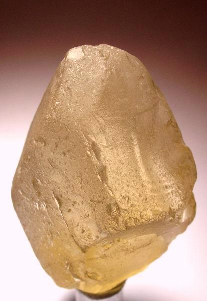 Bytownite Locality: Dorado Mine, Casas Grandes, Chihuahua, Mexico (Locality at ) Size: miniature, 3.7 x 2 x 1.3 cm Feldspar var. Bytownite A somewhat rounded, alluvial crystal of this rare gem feldspar variety - normally only seen as facet rough and almost never as a crystallized specimen. This is a rare example of a bytownite crystal. It is gemmy and transparent in person. Ex. Martin Zinn Collection.